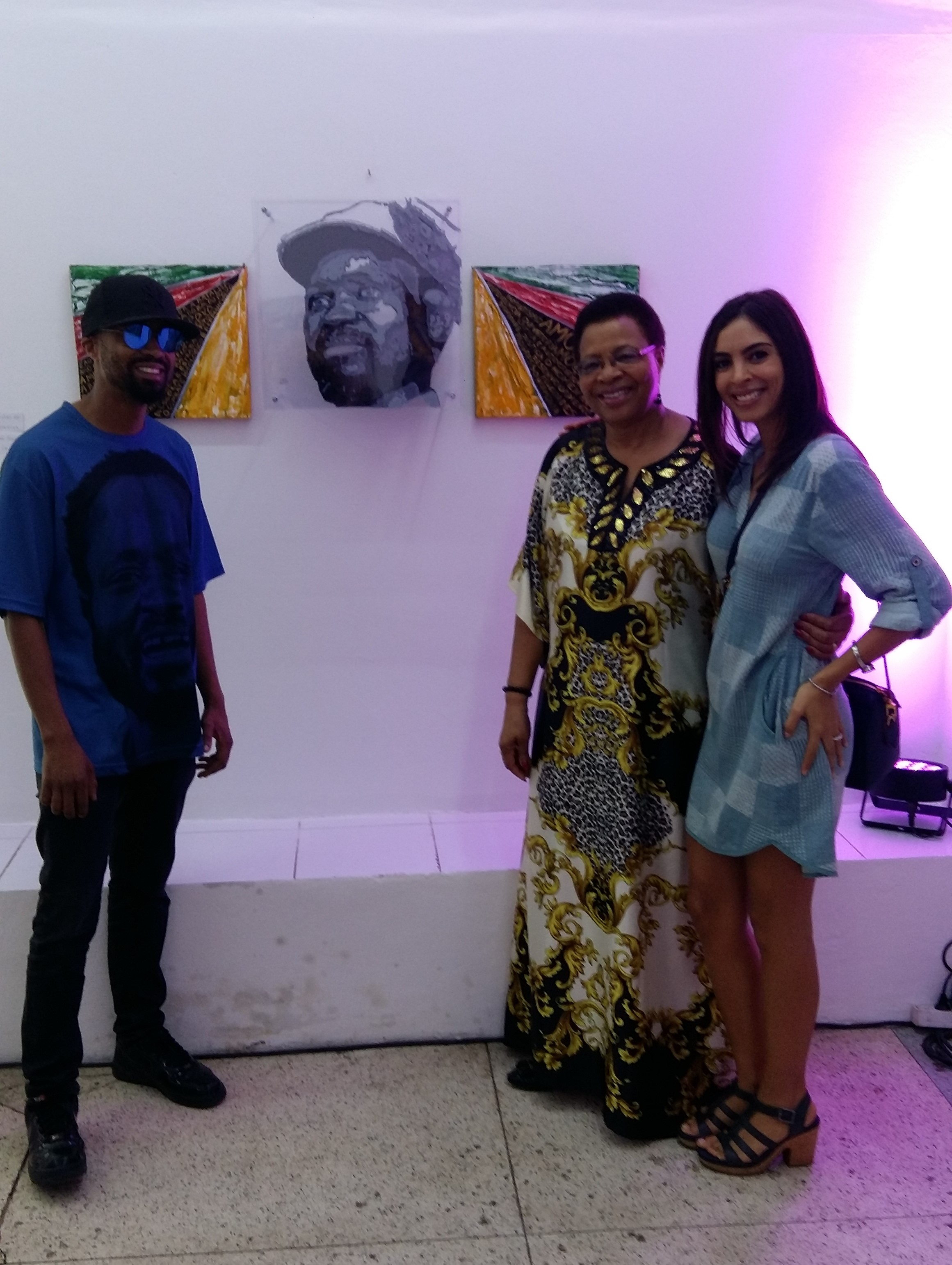 Malenga Machel, Graça Machel and Imane Kamal Idrissi